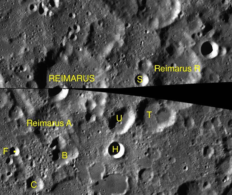 Parts of the charts LAC-115, LAC-128 used for the presentation